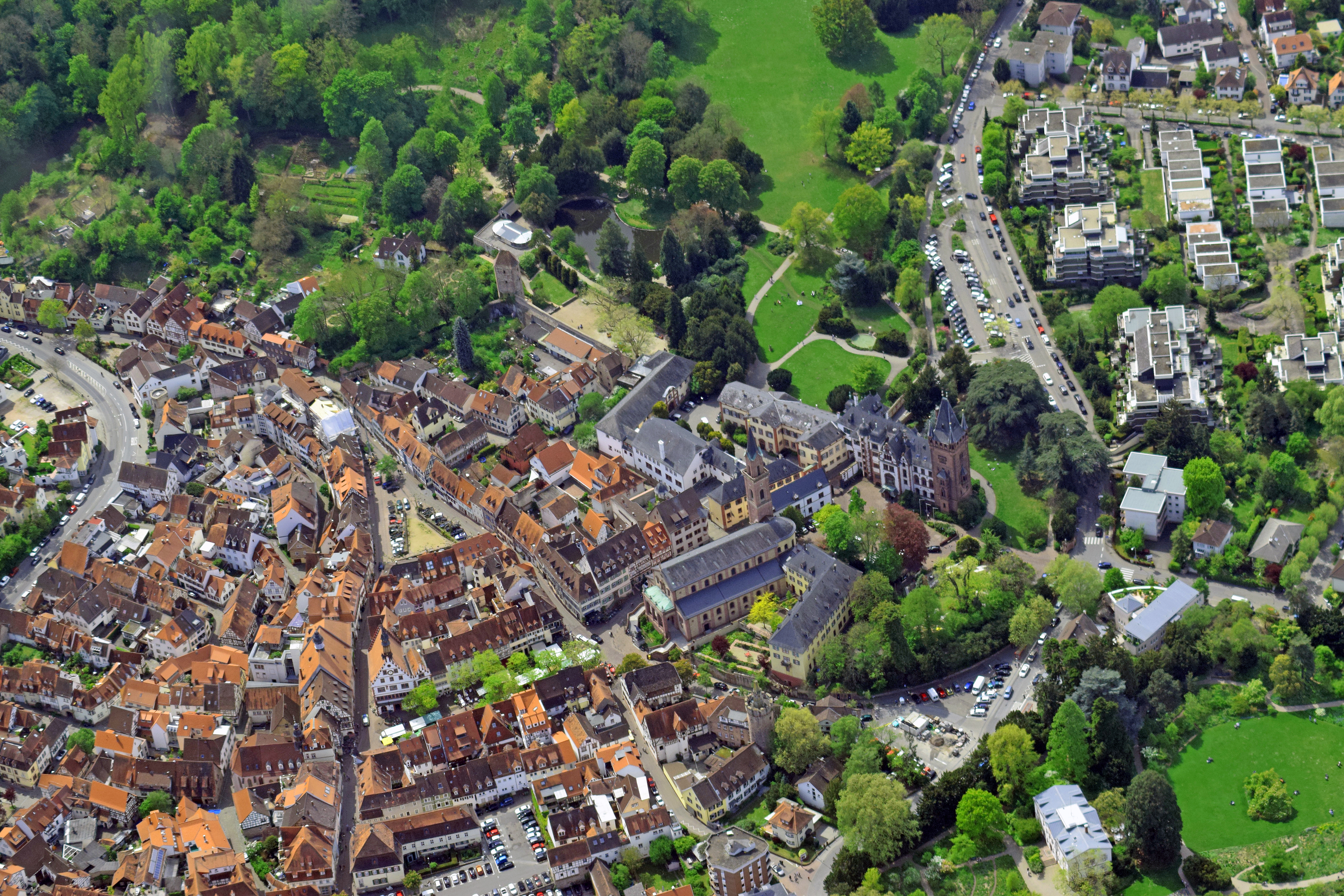 Aerial photo of the Weinheim Castle (centre top right) with castle garden (top) and below left adjacent St. Laurentius church, market square and old town.